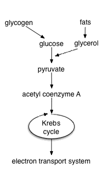 This is a flow chart of cellular respiration.